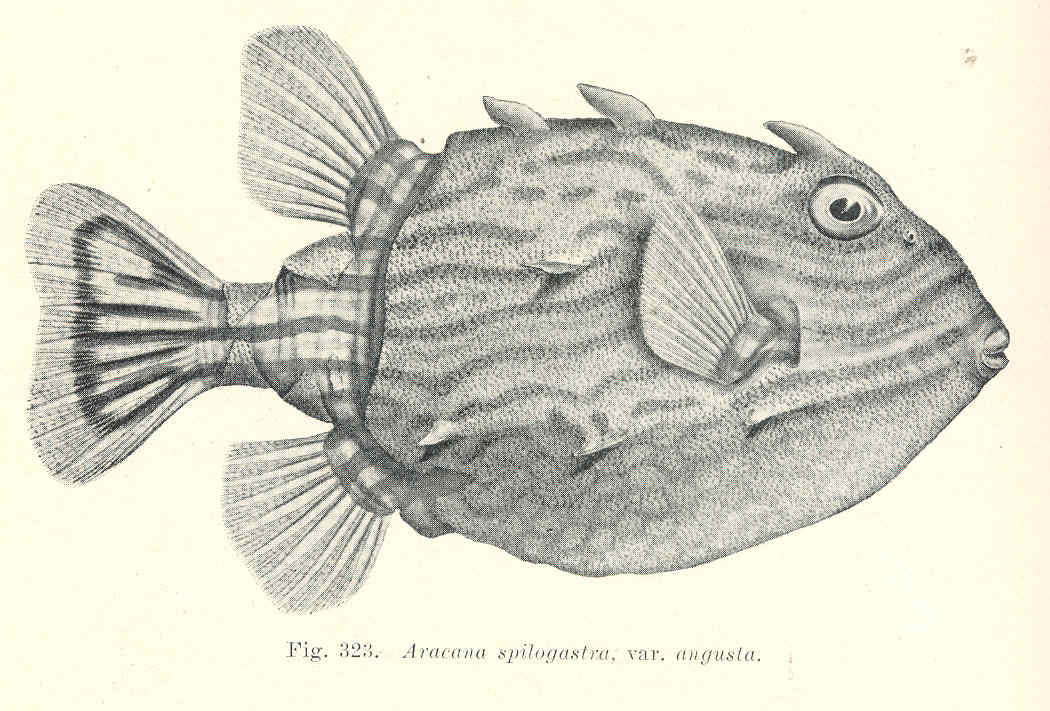 Arcana spilogastra, var.Angusta Subject: Arcana, Ostraciontidae Tag: Fish